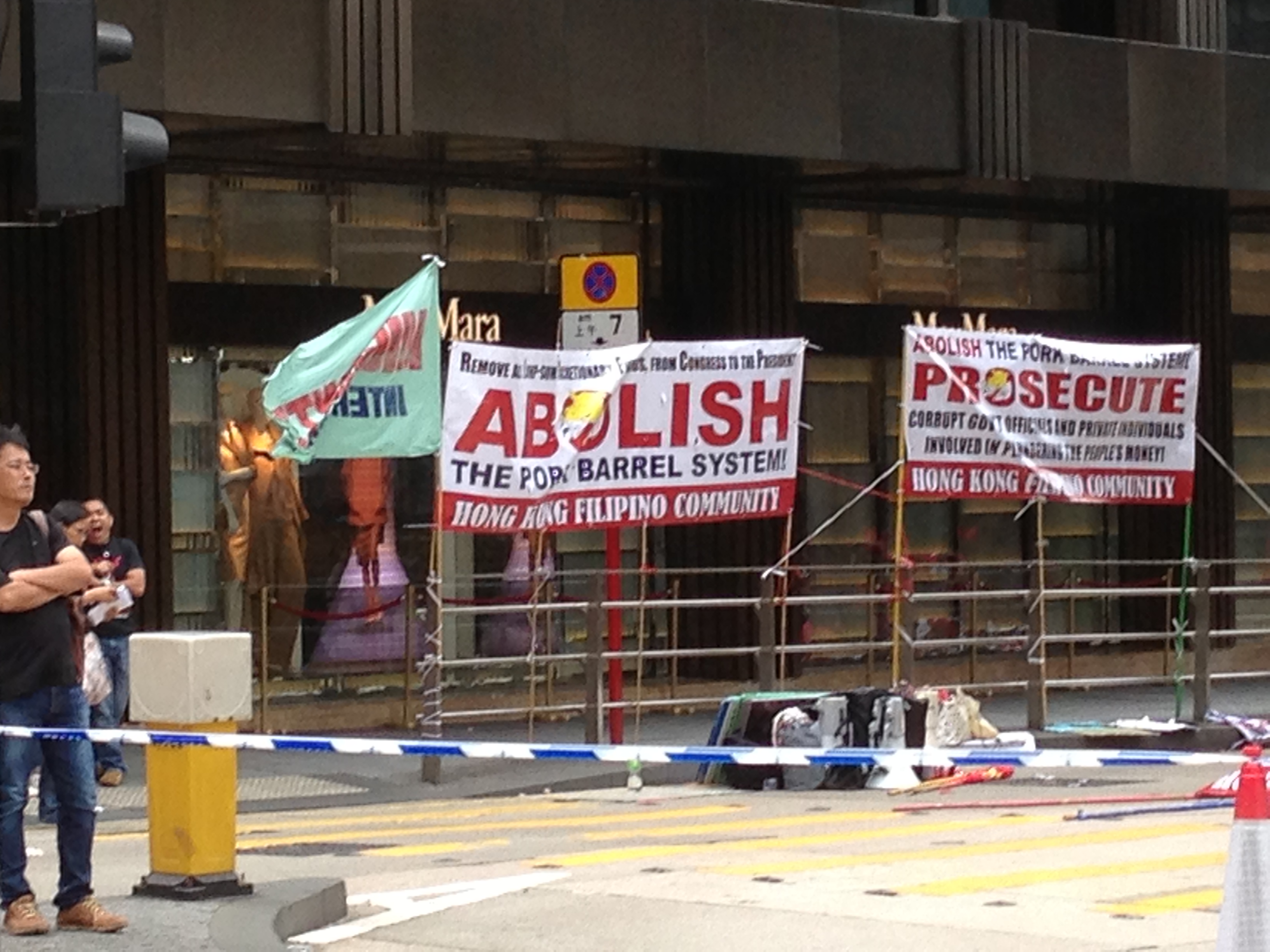 Overseas Filipino Workers in Hong Kong have protest signs in Hong Kong's Central district to protest against the PDAF scandal.